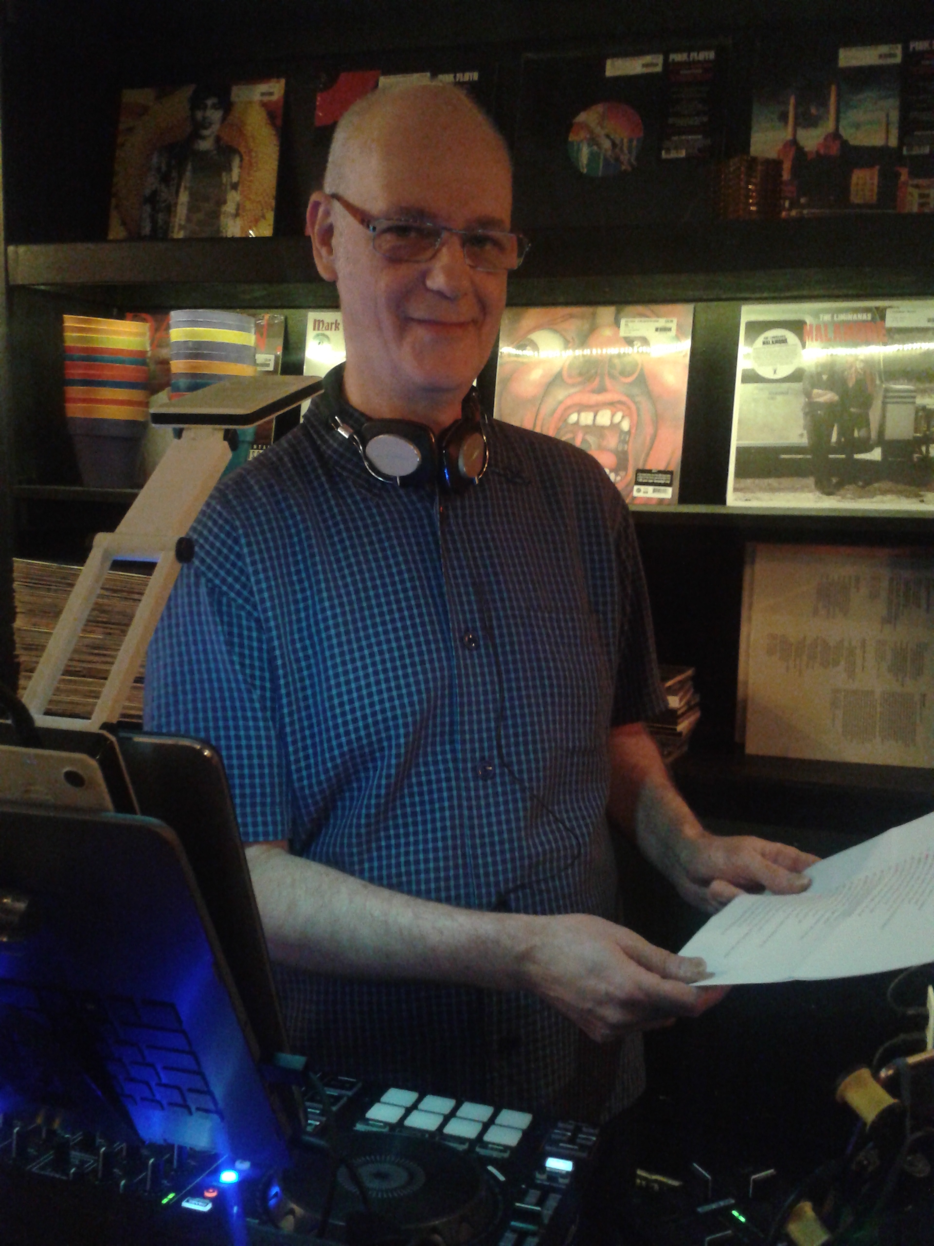 Claude Rajotte photographed in Montréal , Québec, Canada inside the West Shefford Pub.